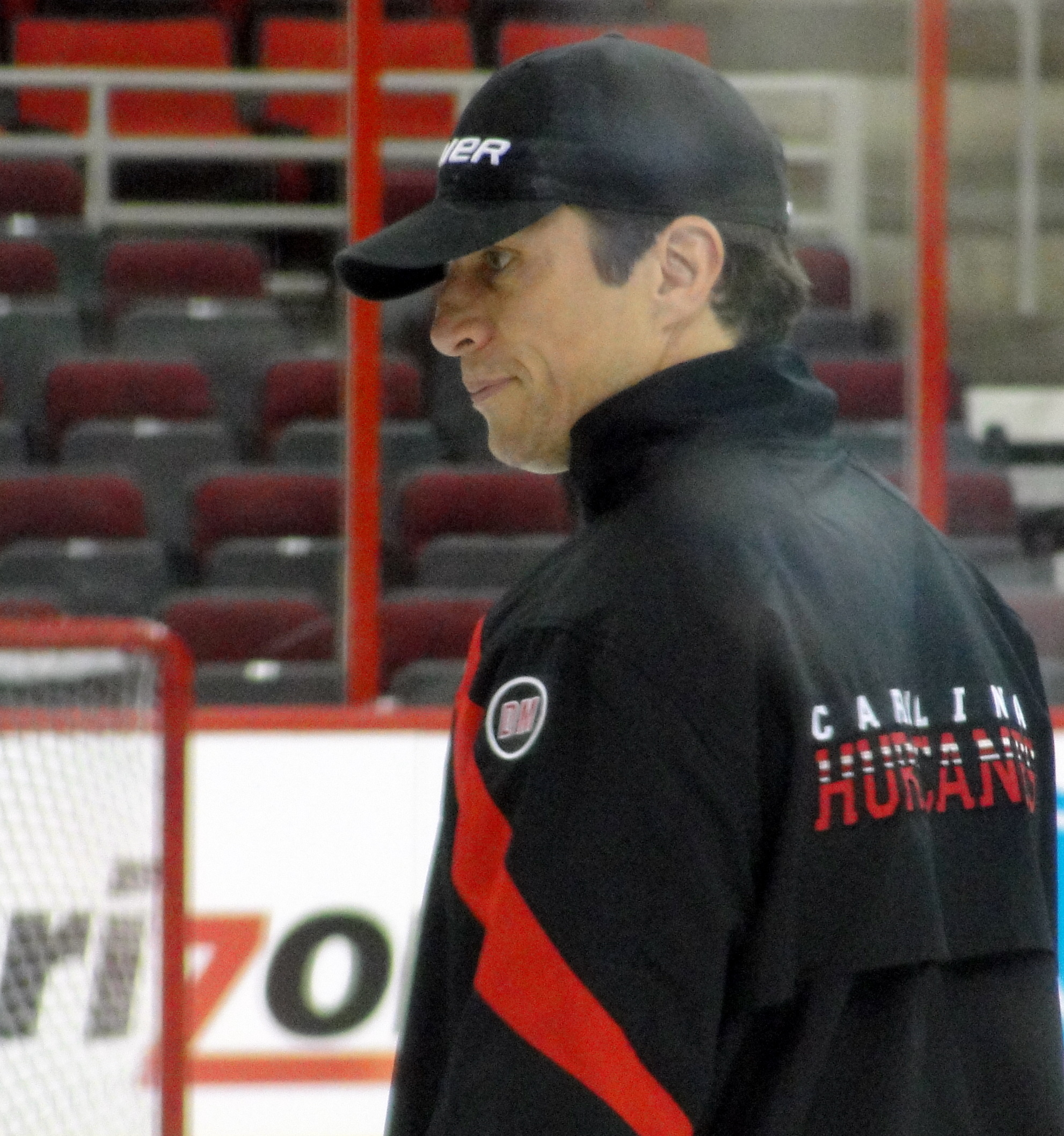 Carolina Hurricanes Assistant Coach on the ice for the Canes morning skate December 3, 2011 at RBC Center in Raleigh, NC.